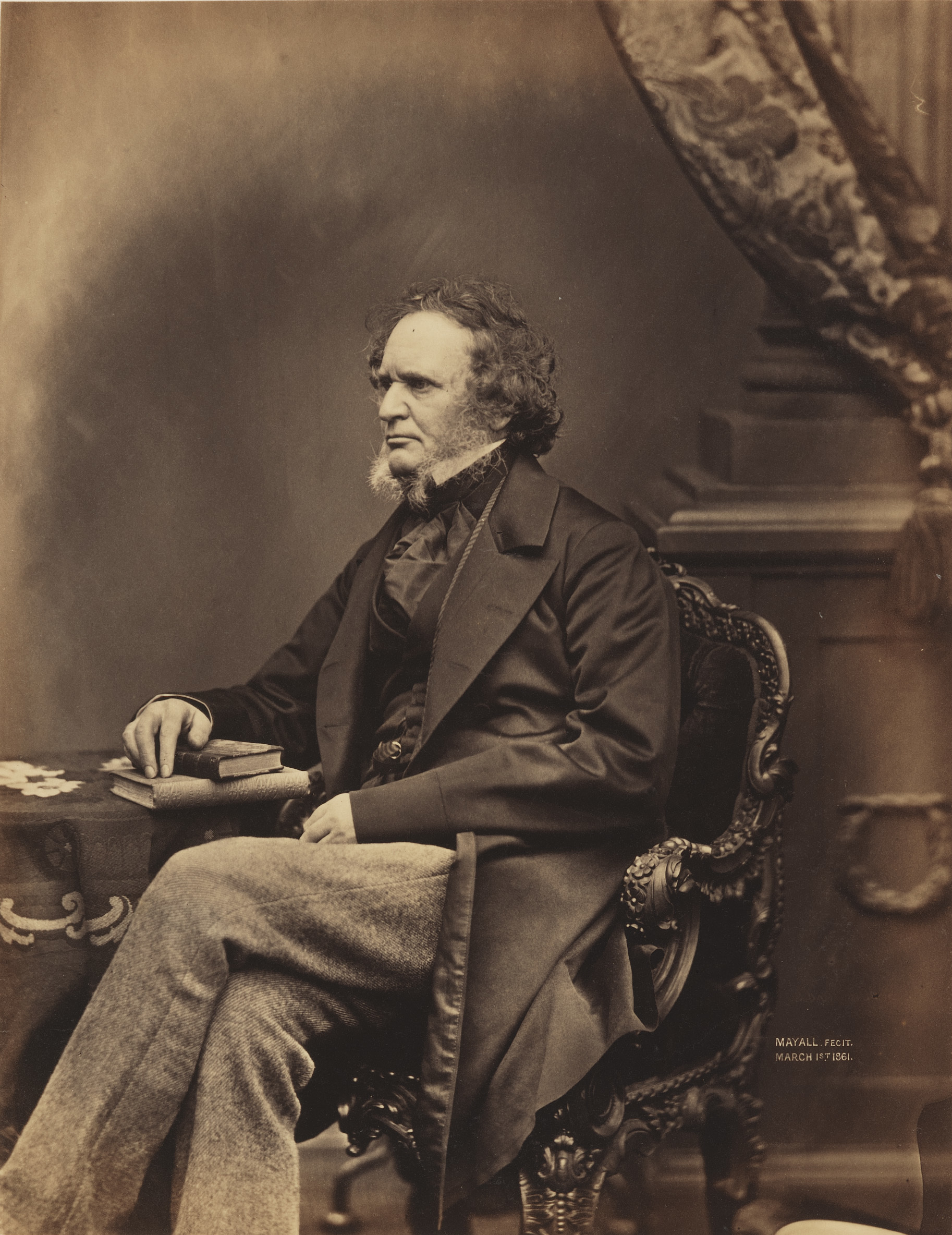 Depicted person: Edward Smith-Stanley, 14th Earl of Derby – British Prime Minister